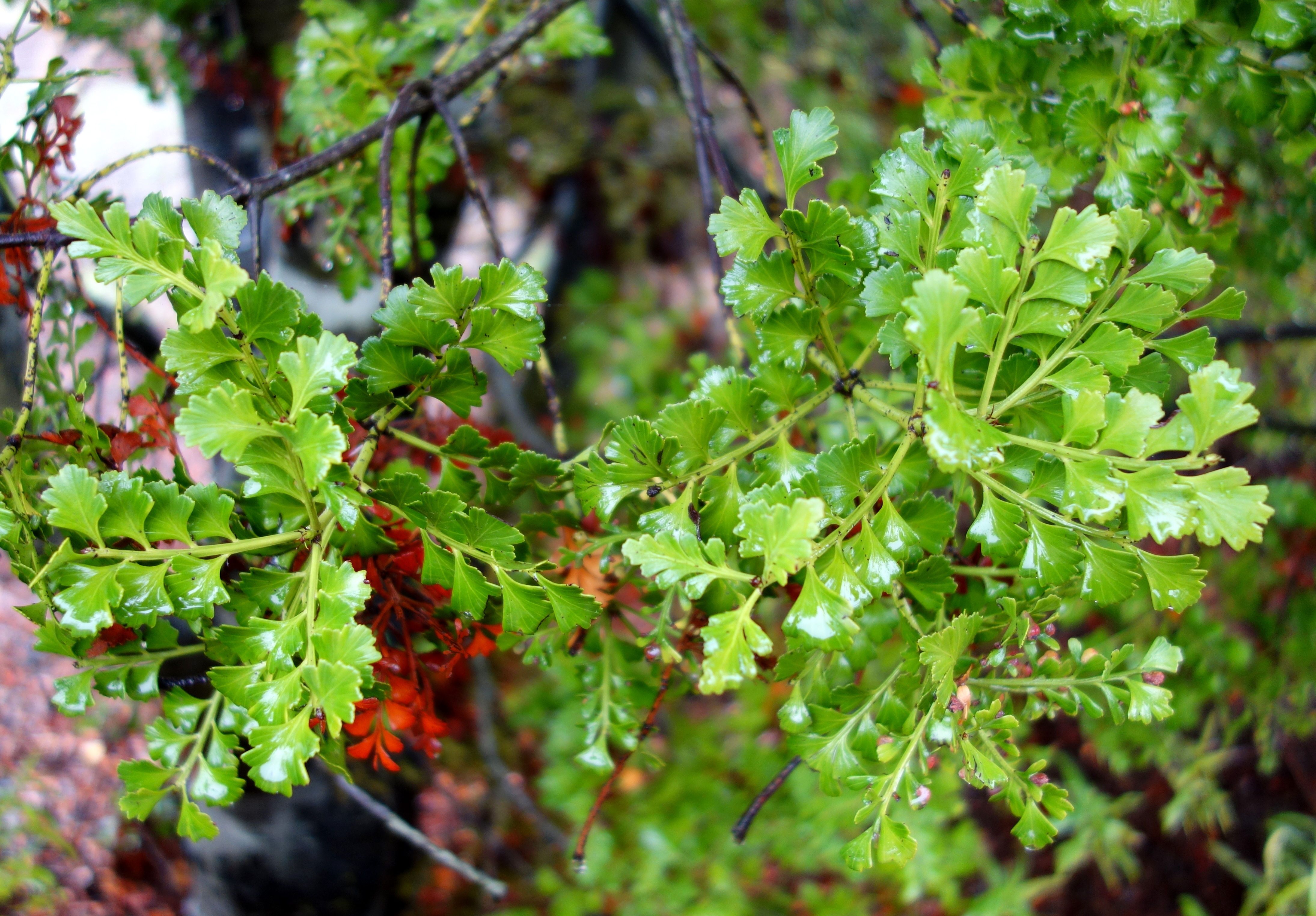 Botanical specimen in the UC Santa Cruz Arboretum at the University of California, Santa Cruz - 1156 High Street, Santa Cruz, California, USA.